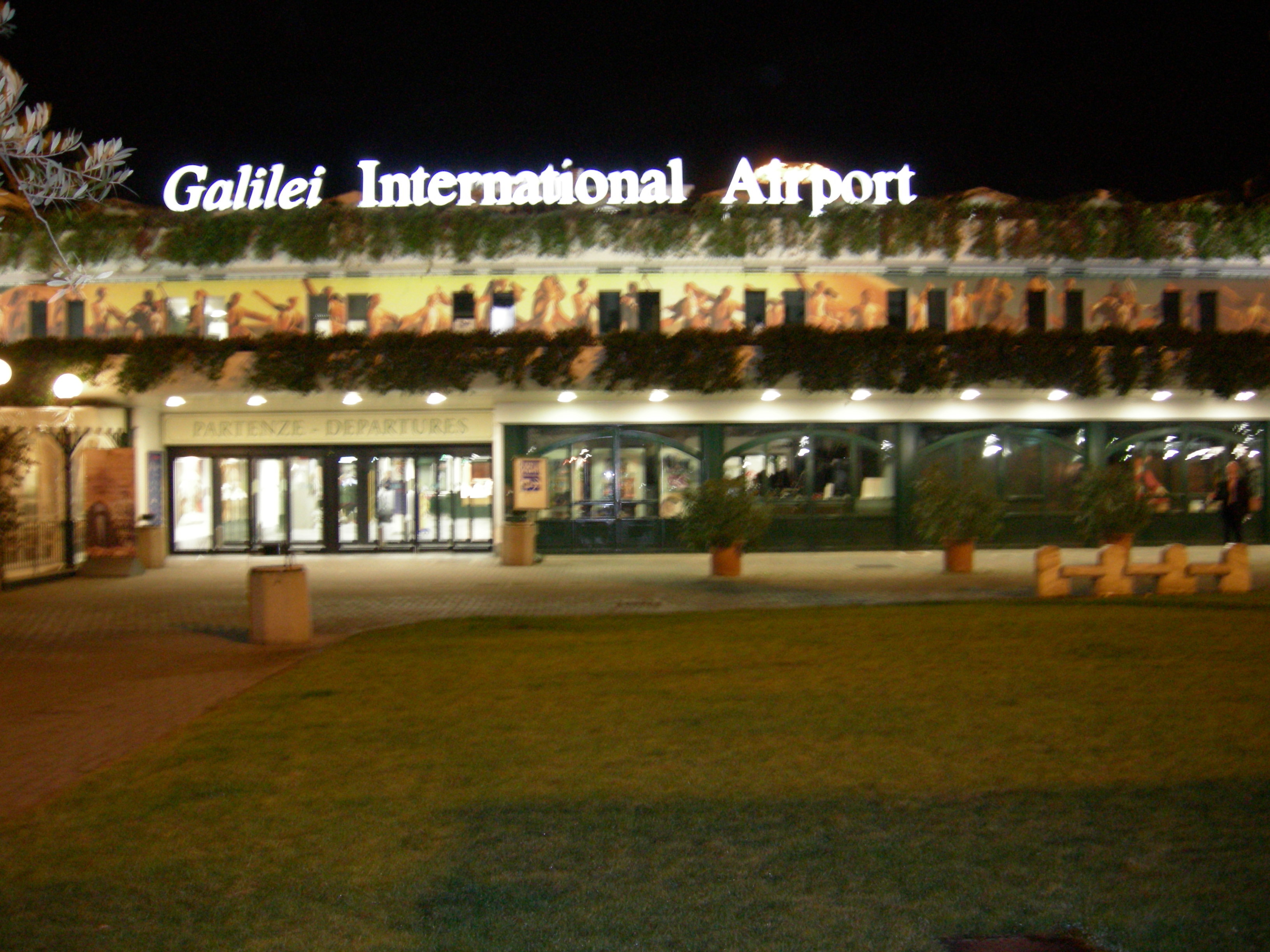 Galileo Galilei International Airport, in Pisa. Photo taken by night, about 5 am.